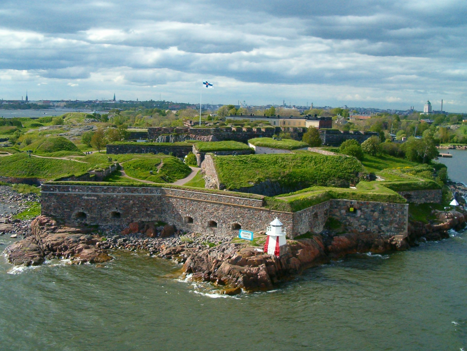 Suomenlinna, a fortress near Helsinki, Finland. Picture taken from a ferry.